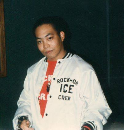 Young Fresh Kid Ice